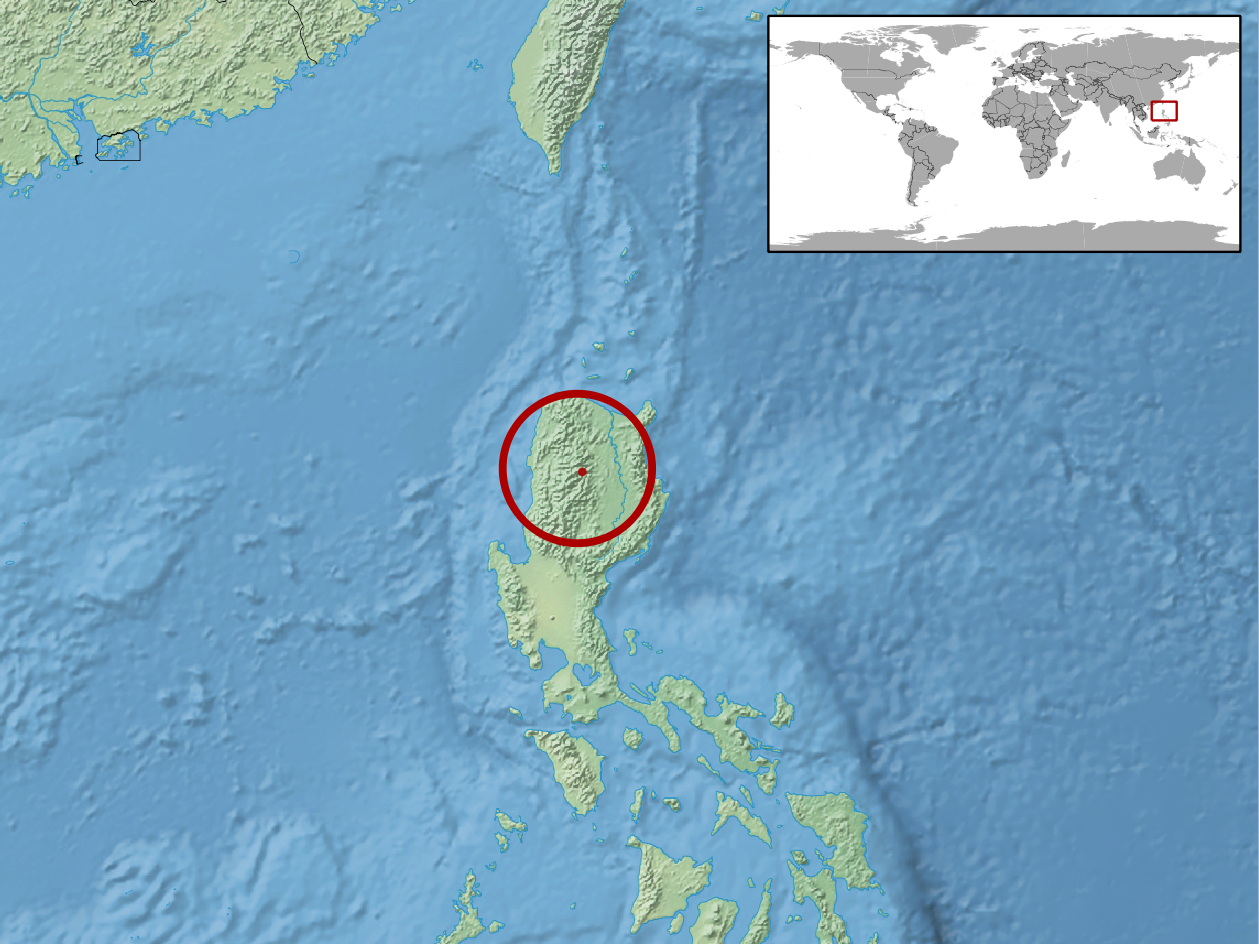 geographic distribution of Sphenomorphus lawtoni (IUCN) syn Parvoscincus lawtoni (RDB)